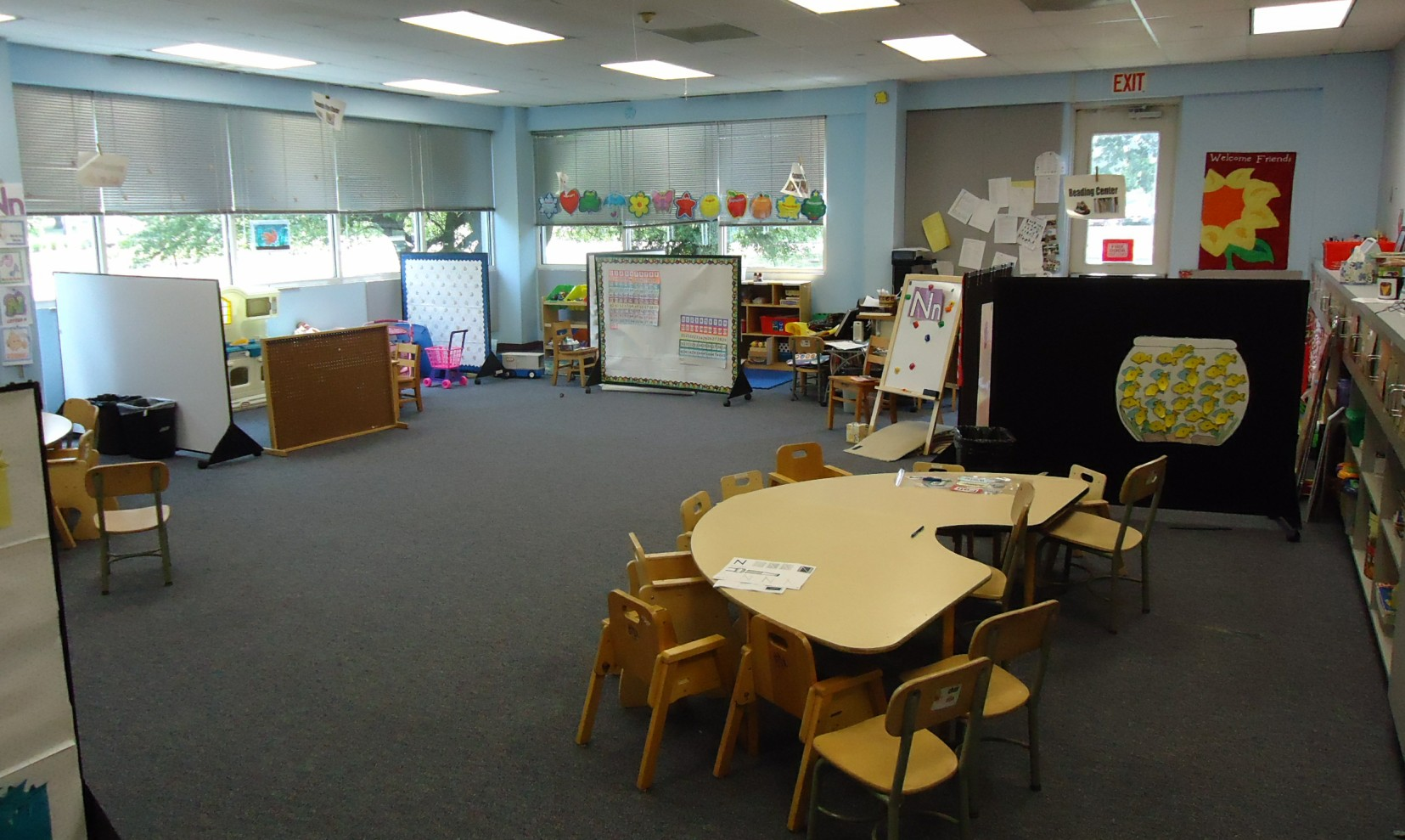 Classroom for preschoolers at the Summit Speech School in New Providence, New Jersey